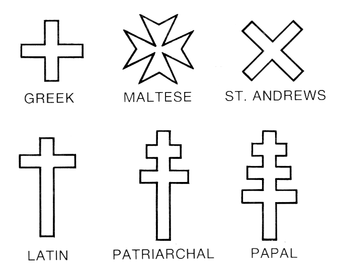 line art example of crosses.